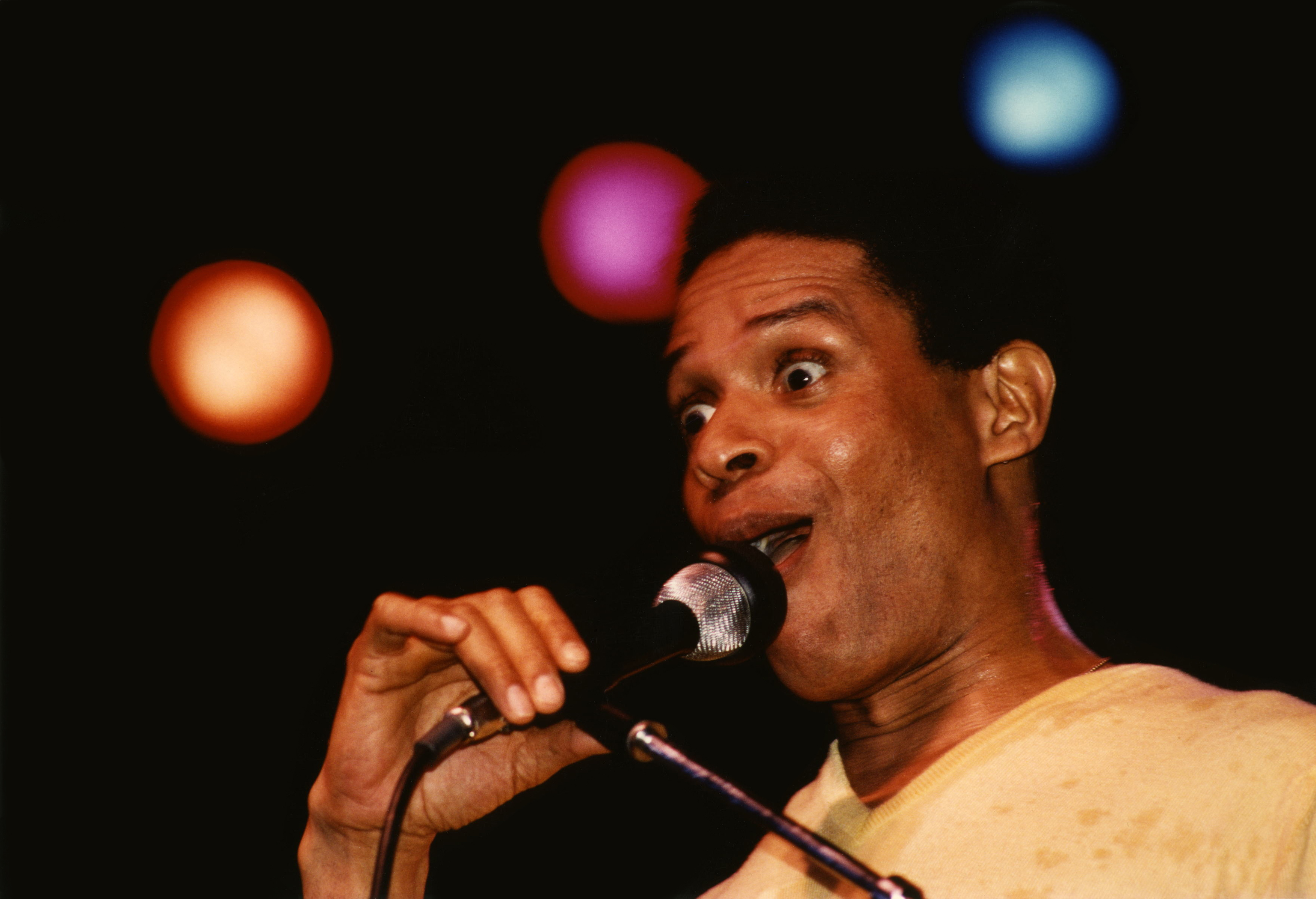 American singer Al Jarreau pictured during a concert at the Philipshalle in Düsseldorf, Germany, on January 16 1981. Scan of an original Kodak print made in November 1983 from a Kodachrome 64 slide, taken by myself with Canon F1new and Canon FD 2.8/300L.